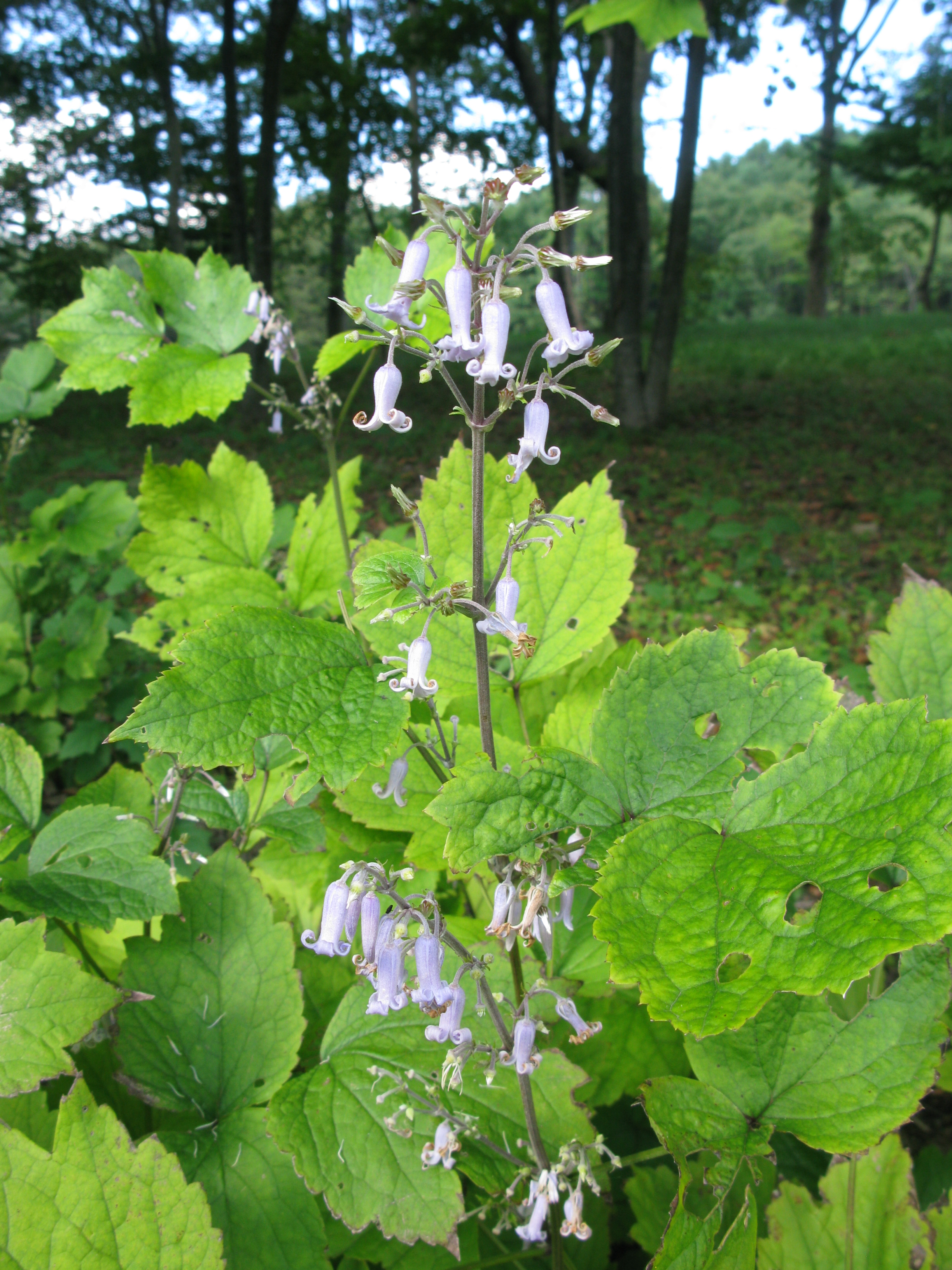 Clematis stans, Yamagata pref., Japan